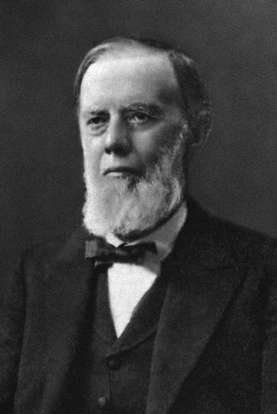 Edwin Maxwell (July 16, 1825 – February 5, 1903) was an American lawyer, judge, and politician in the U.S. state of West Virginia. Maxwell served as Attorney General of West Virginia in 1866 and was an Associate Justice of the Supreme Court of Appeals of West Virginia from 1867 until 1872. He was elected to the West Virginia Senate (1863–1866; 1886–1893) and the West Virginia House of Delegates (1893–1903).